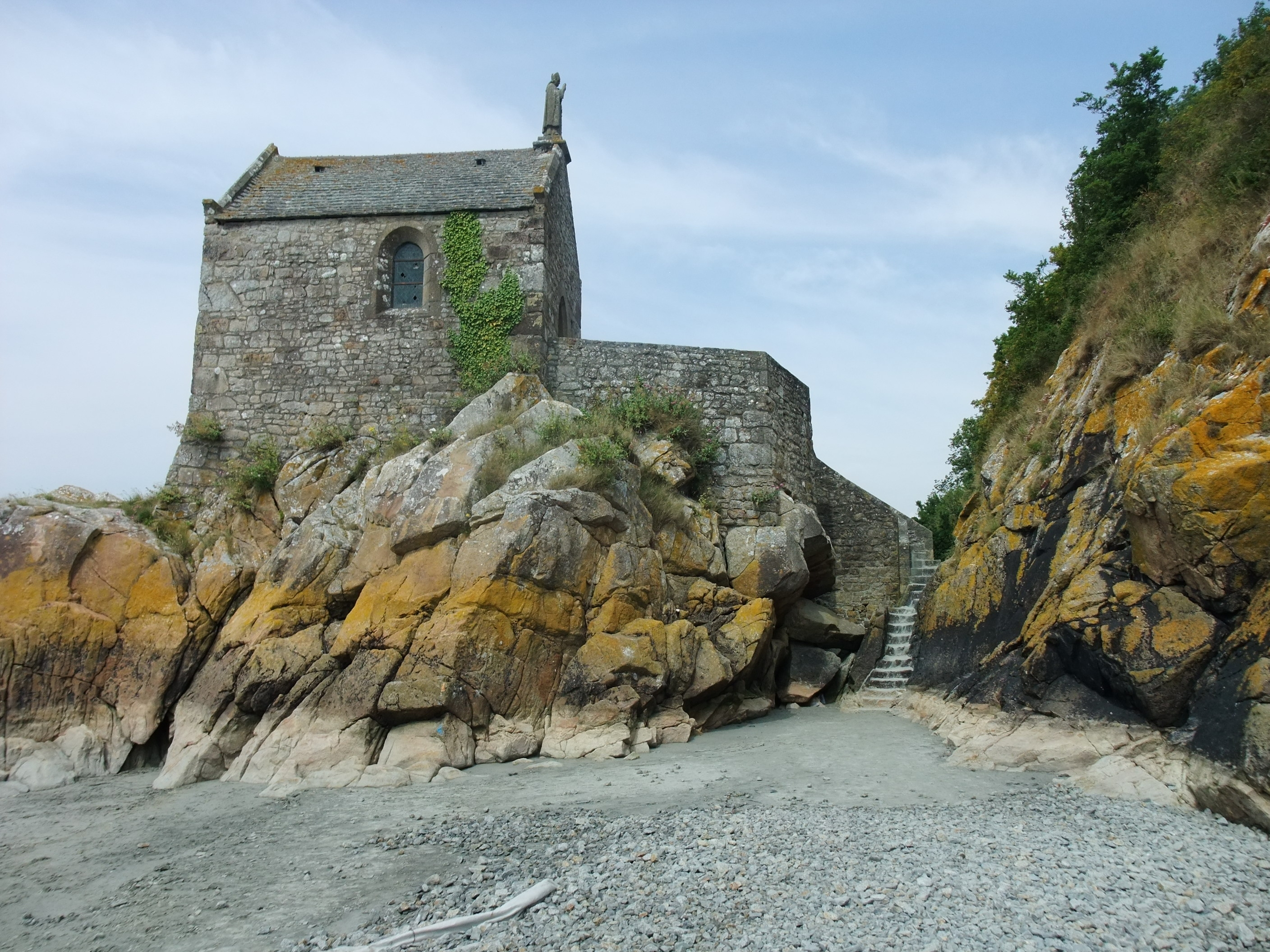 Chapel Saint-Aubert, Mont-Saint-Michel, France